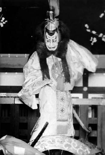 Kōshirō Matsumoto VII (1870–1949) as Fujiwara no Shihei, in Sugawara Denju Tenarai Kagami